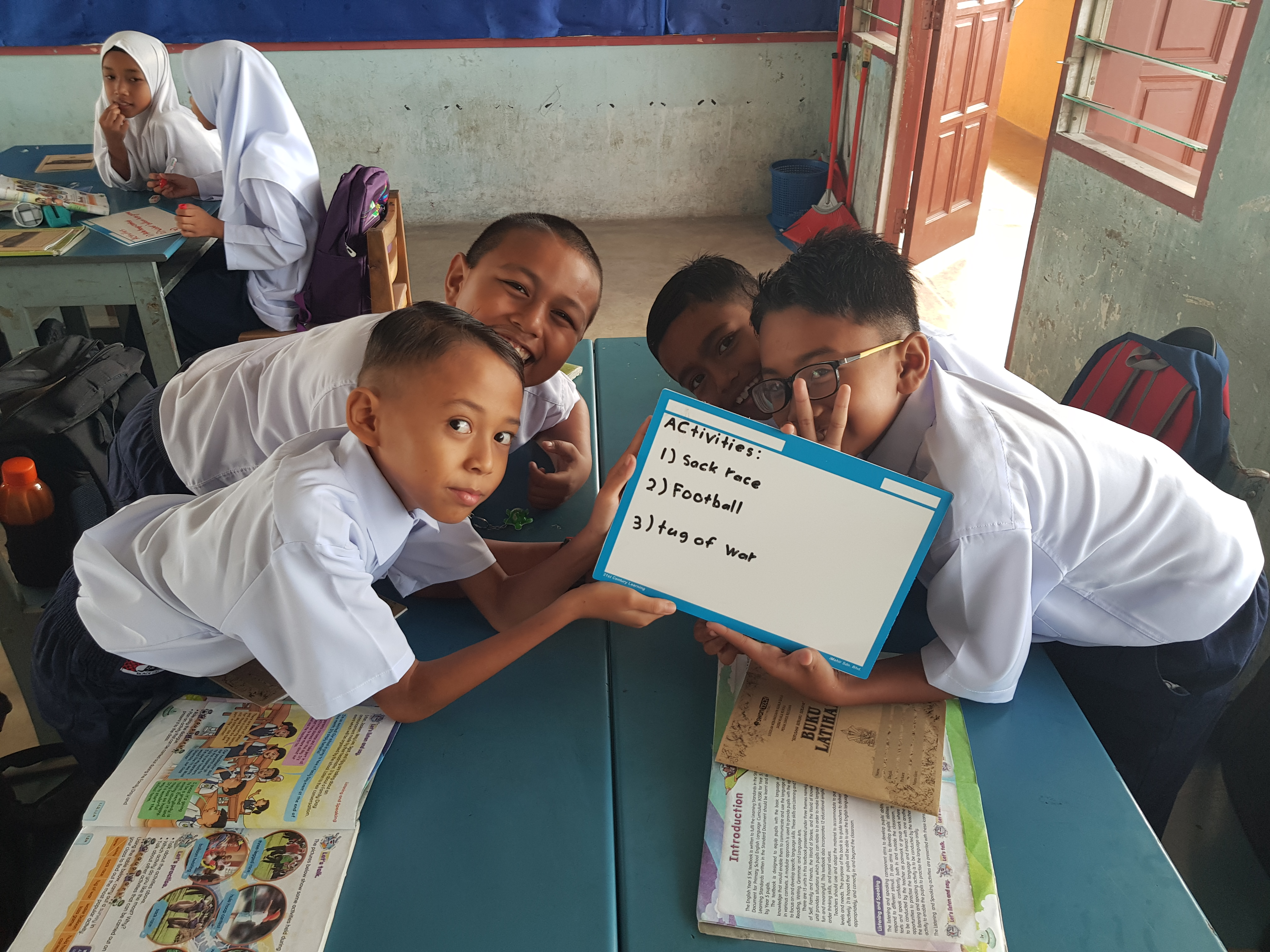 Students activity